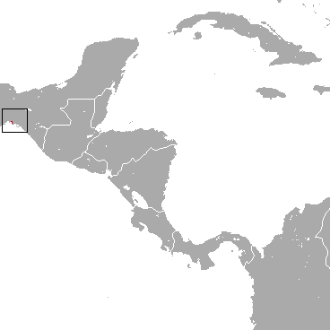 Tehuantepec Jackrabbit (Lepus flavigularis) range